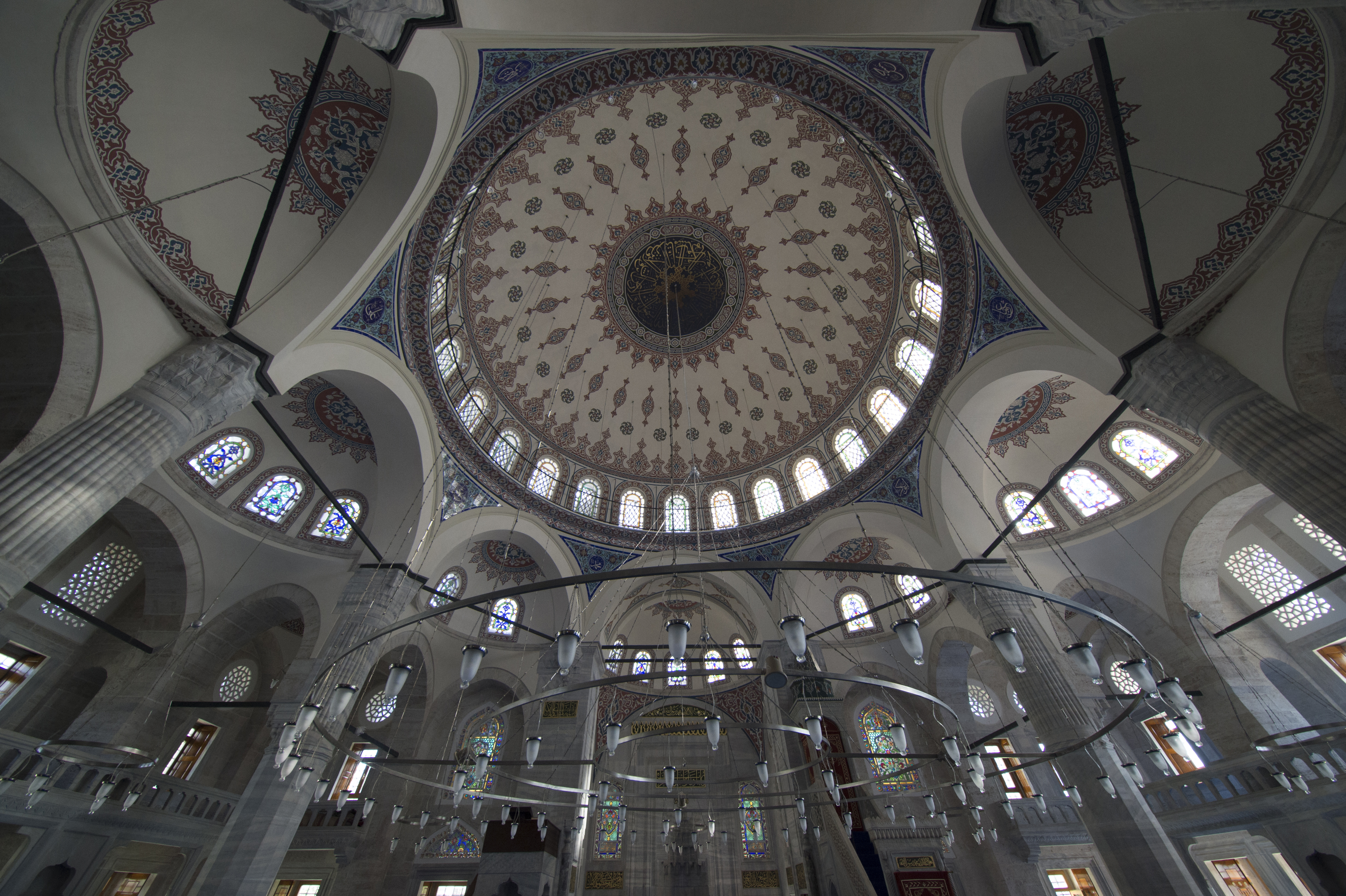 The Sokollu Mehmet Pasha Mosque Azapkapi has been restored and after years looks brand new. It well deserves a visit because of its fine architecture, but is rarely visited by tourists because of its location and probably because it lacks the many Iznik tiles the other extant Sokollu Mehmet Pasha Mosque has. However, the nearby area is being developed, and the mosque seems to be popular with locals. Nearby is a wonderful çeşme cum sebil.